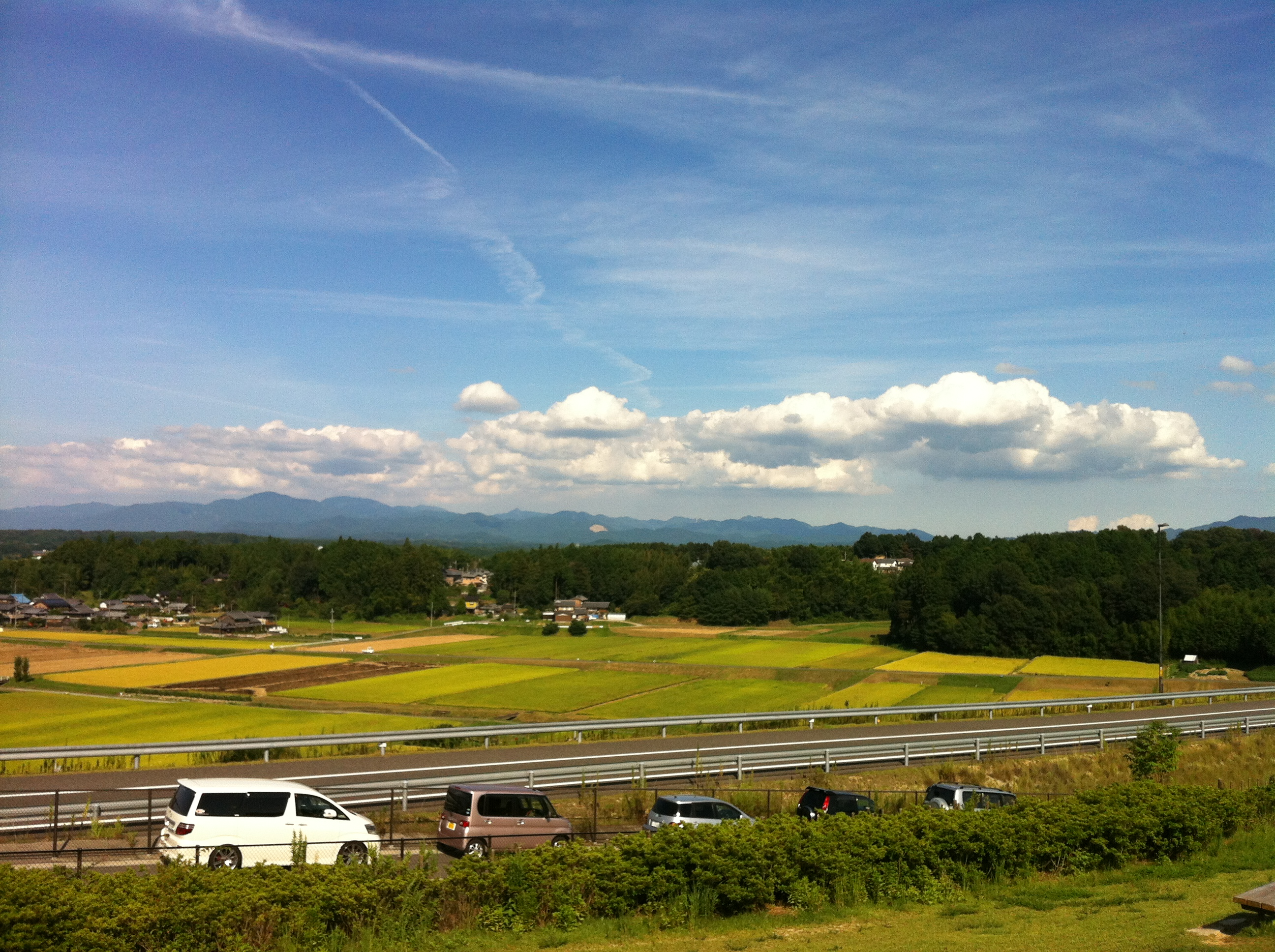 View from Konan rest area ('parking area')